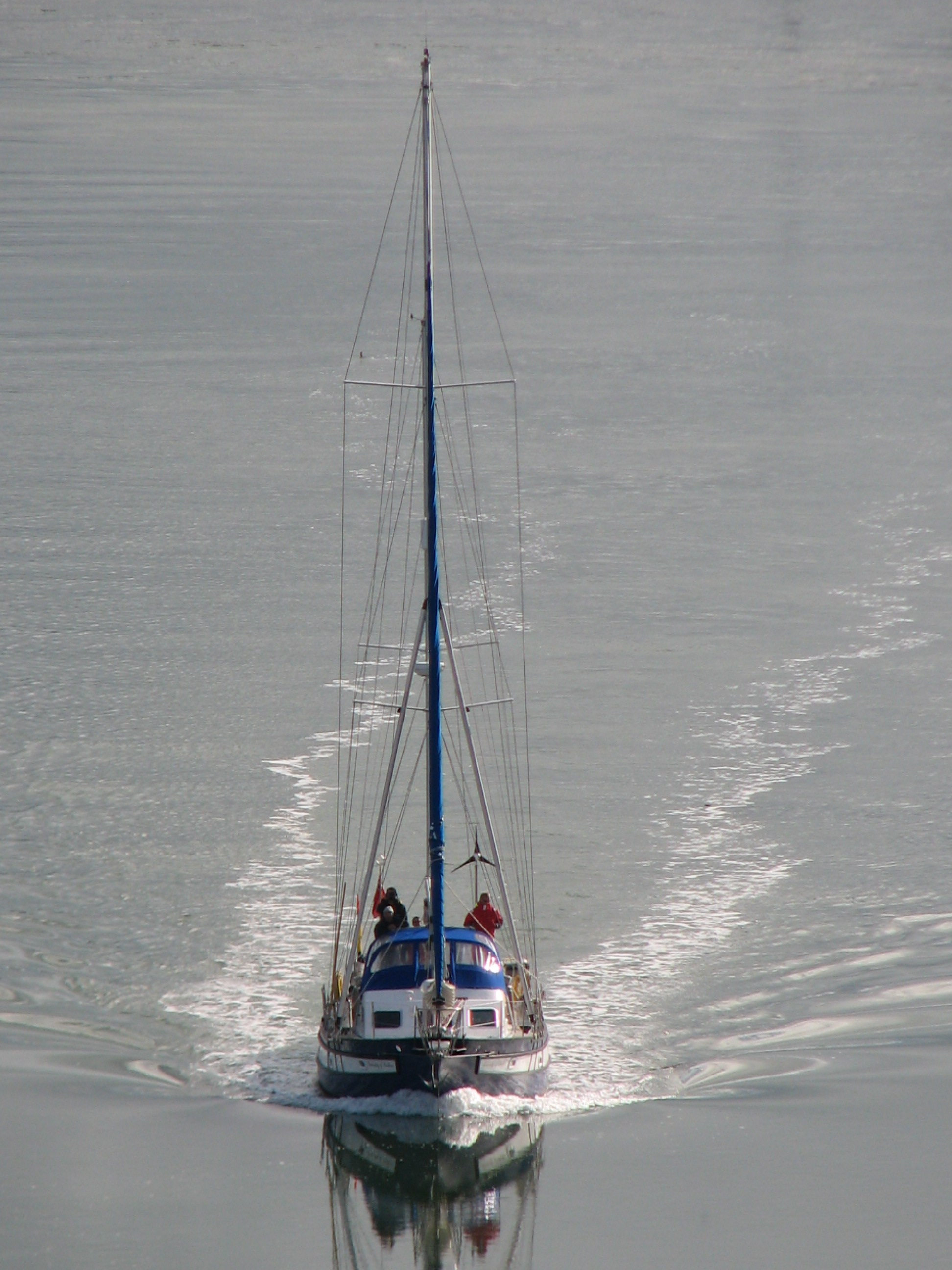 Tenacity of Bolton - the boat built by boys